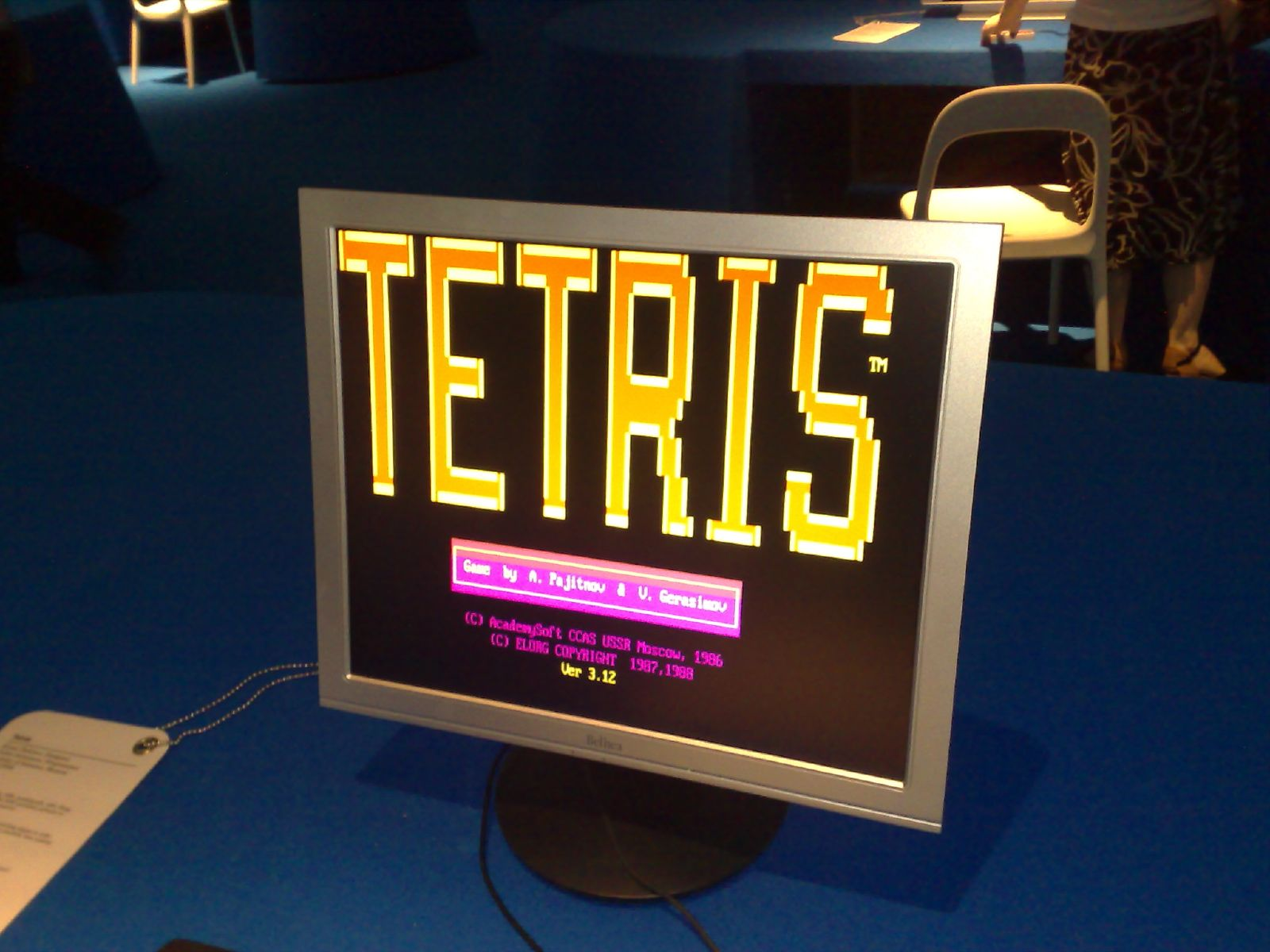 First screen of the IBM version of Tetris